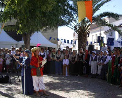 Medieval fair of Herrera (Sevilla)